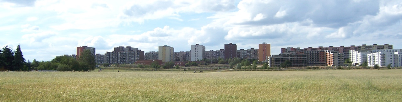 Prague, Černý Most, panoramatic photo